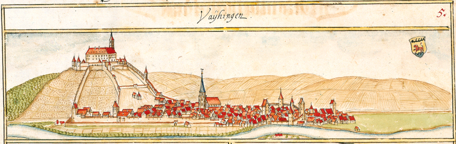 View of Vaihingen an der Enz from the forest register books created by Andreas Kieser